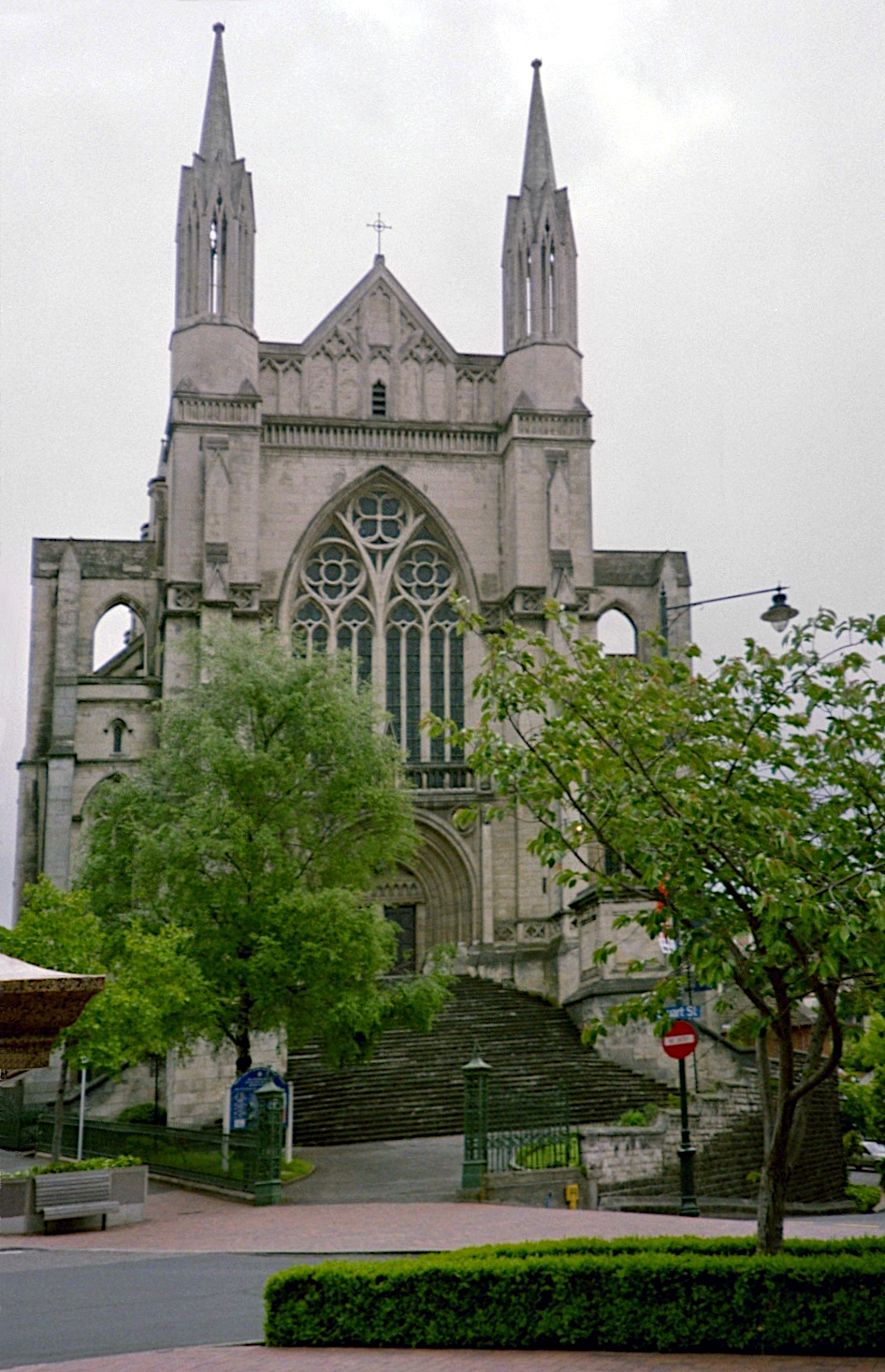 St. Paul's Anglican Cathedral at Octagon in Dunedin, New Zealand.